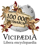 Logo celebrating Latin Wikipedia reaching 100 000 articles.